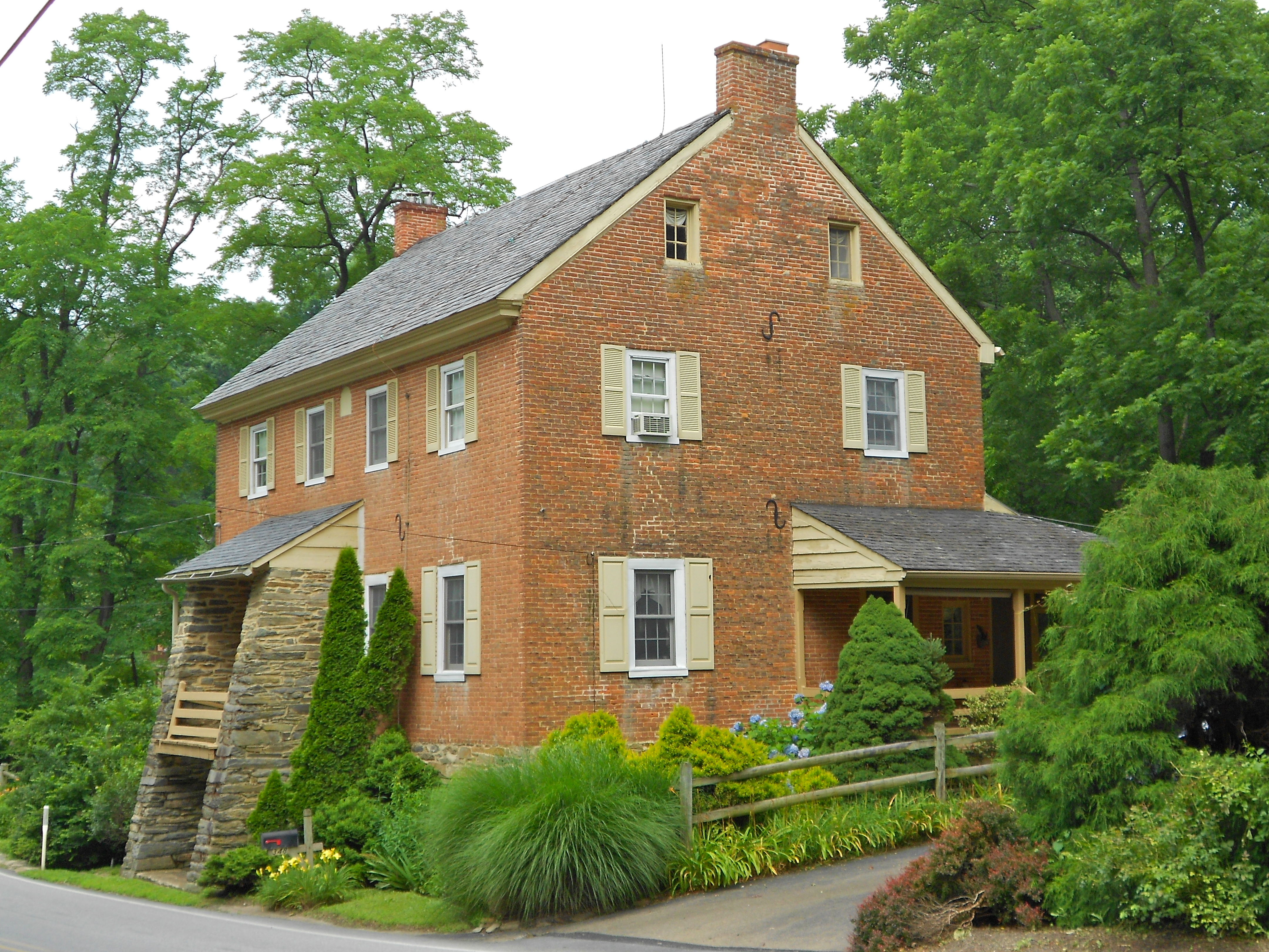 The "Brick Mills" in in Kirks Mills Historic District, listed on the NRHP since July 17, 1978. Located west of Nottingham, Chester County on Pennsylvania Route 272 in far southern Lancaster County, Pennsylvania, Little Britain Township.